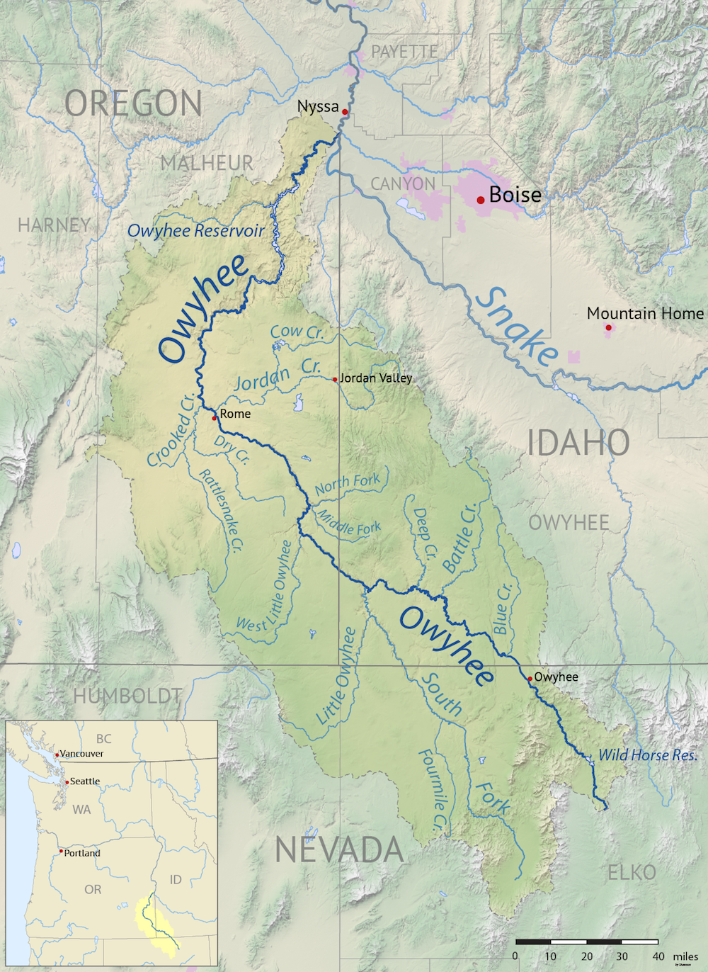 Map of the Owyhee River drainage basin in Idaho, Oregon and Nevada. Made using USGS National Map data.